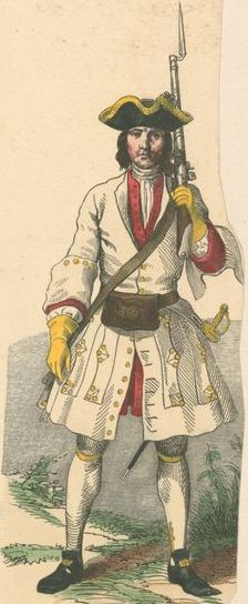 french soldier of the 1 st regiment of line (Picardie) A.D. 1710